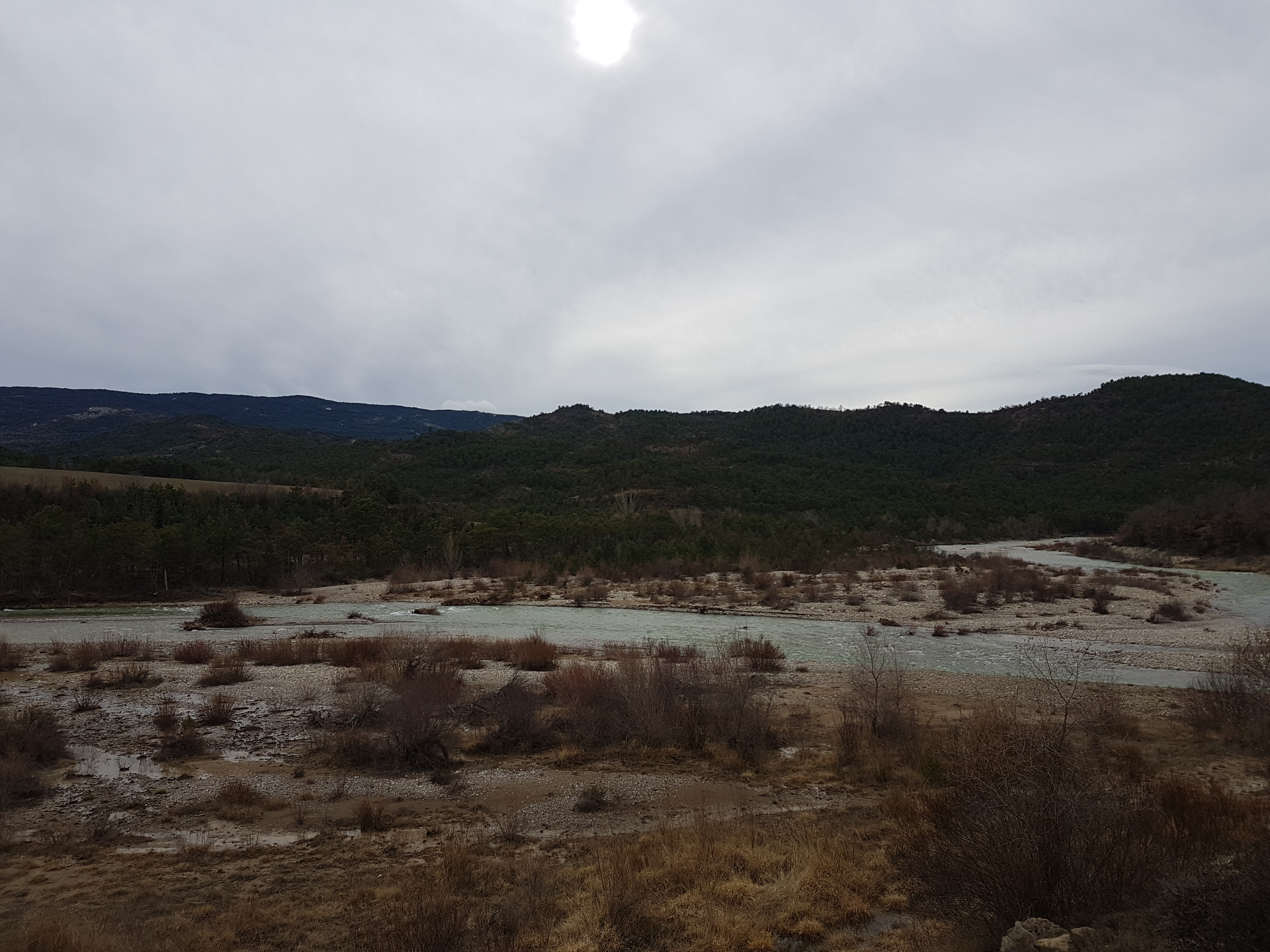 The Guarga River in Sabiñanigo, province of Huesca, Aragon, Spain, in February 2017.